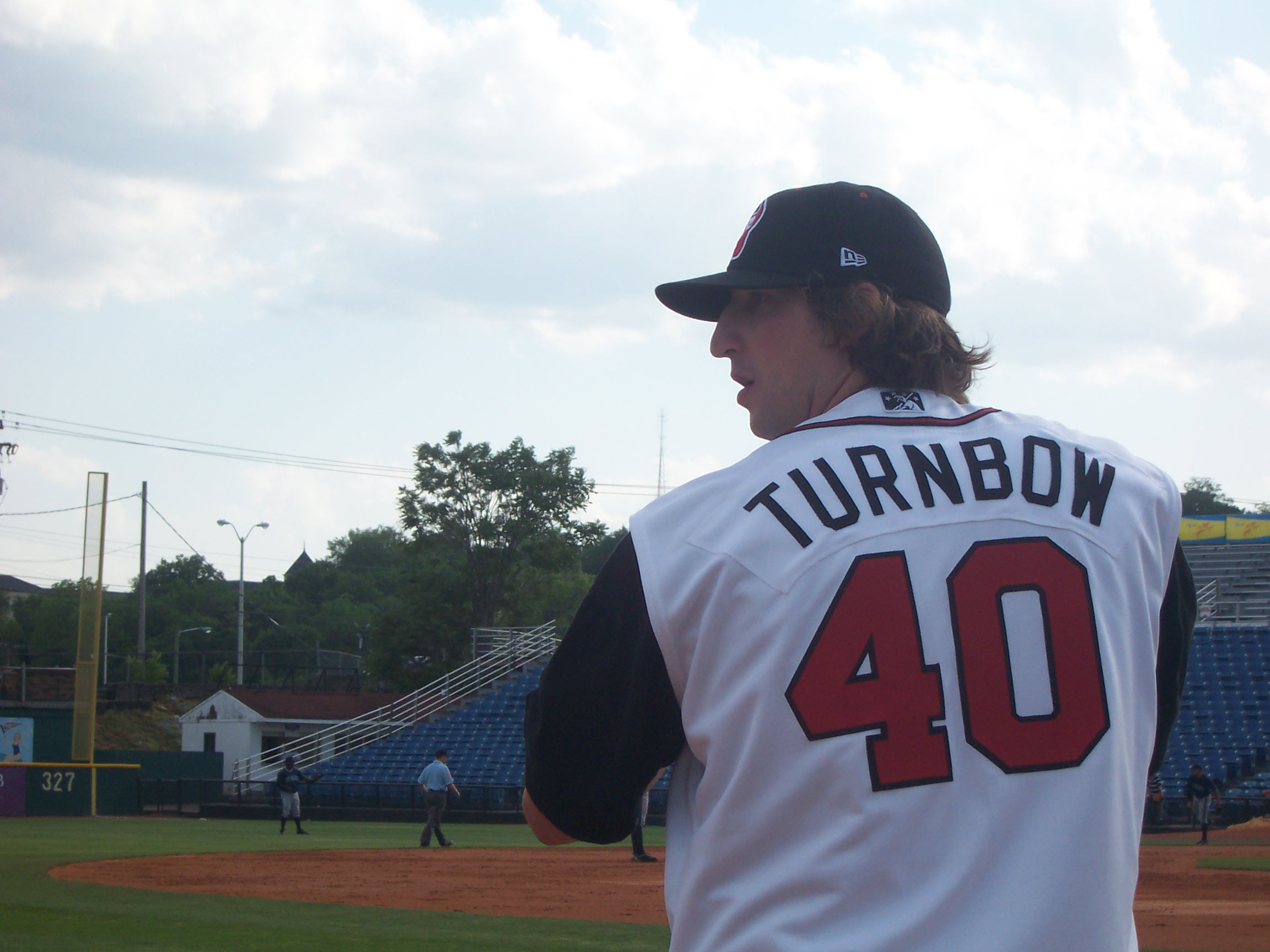 Derrick Turnbow, a pitcher for the minor league Nashville Sounds, warming up in the bullpen before a game against the New Orleans Zephyrs at Herschel Greer Stadium on May 18, 2008